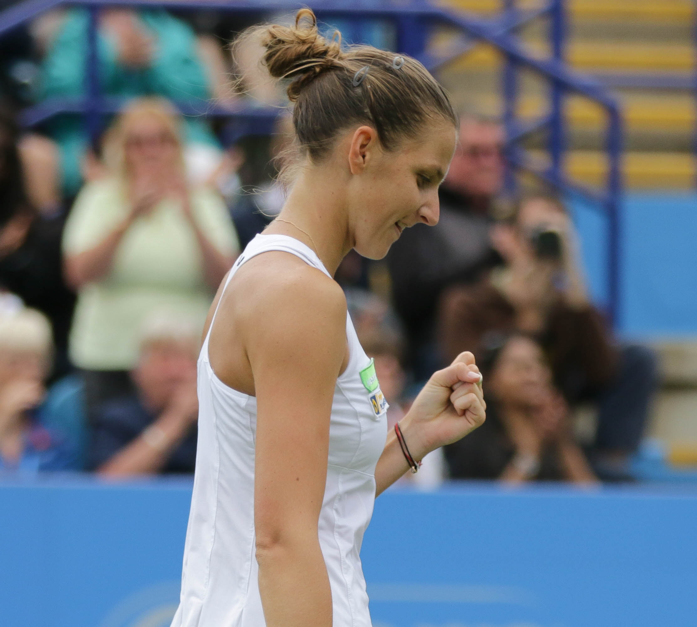 Aegon International Women's Final 2017, Eastbourne – Karolína Plíšková v Caroline Wozniacki